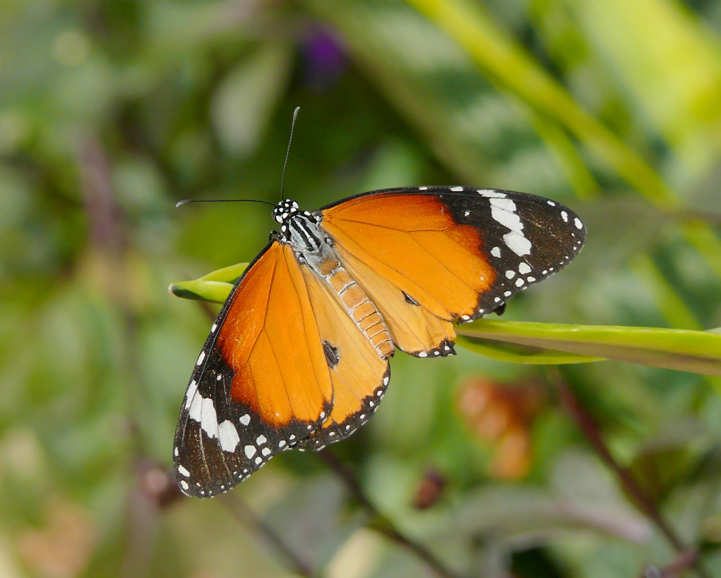 Plain tiger -Danaus chrysippus - taken at Krohn Conservatory in Cincinnati, OH.